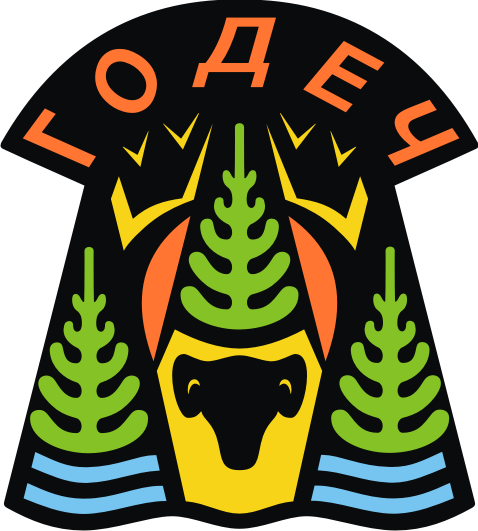 Emblem of Godech, Bulgaria